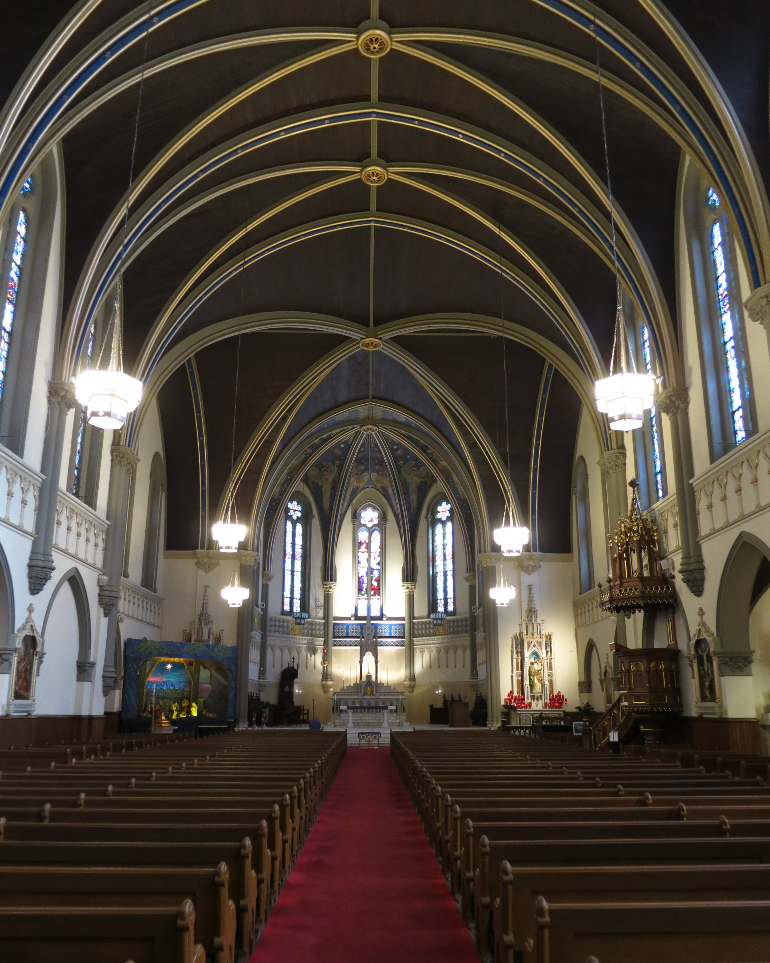 Saint John the Evangelist Church (Indianapolis, Indiana) - nave